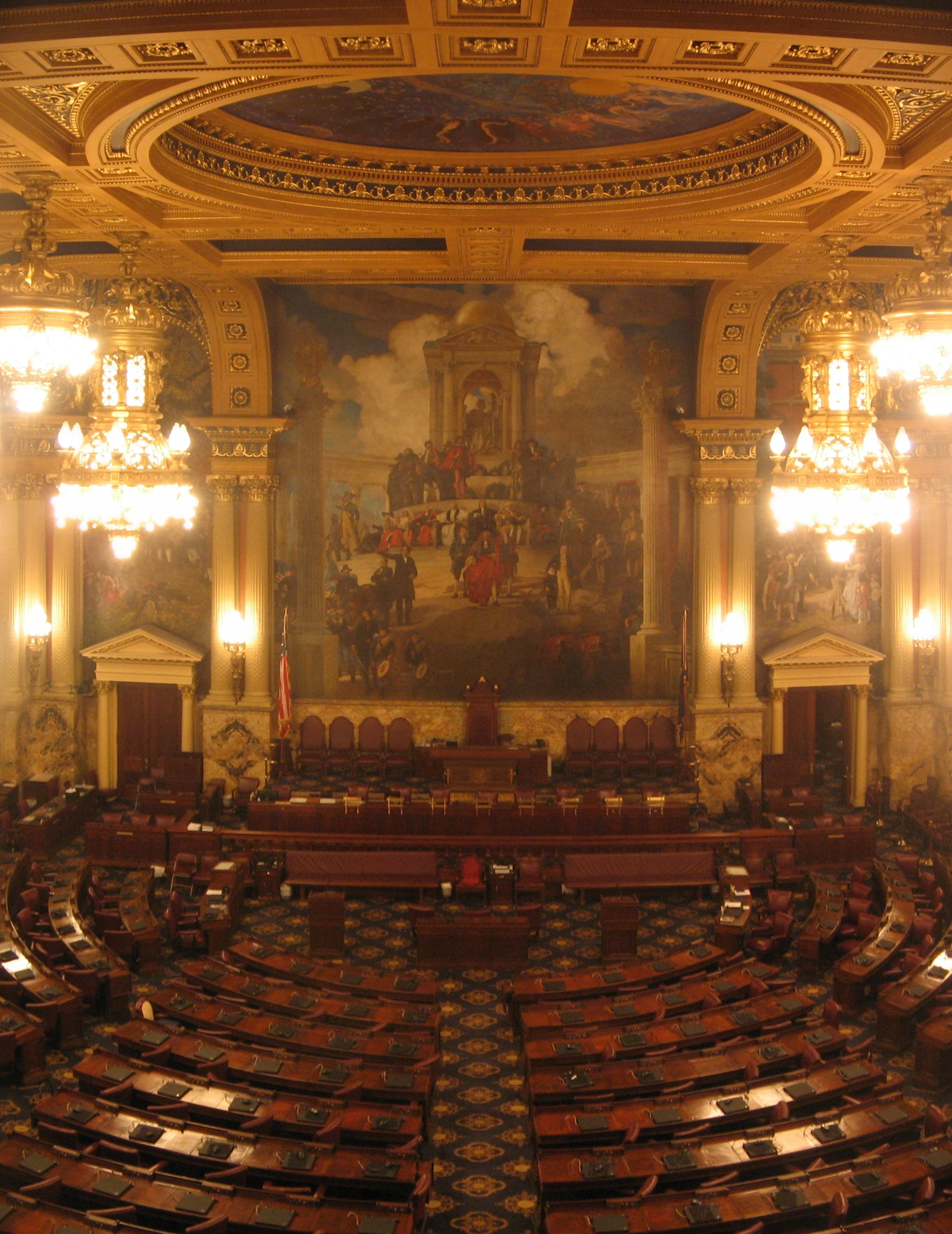 House chamber in the Pennsylvania State Capitol in Harrisburg, Pennsylvania, USA, seen from visitor's balcony